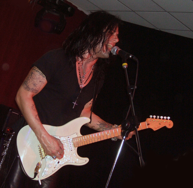 Richie Kotzen performing live with Johnny Griparic and Pat Torpey in Modena, Italy, 3rd November 2007.